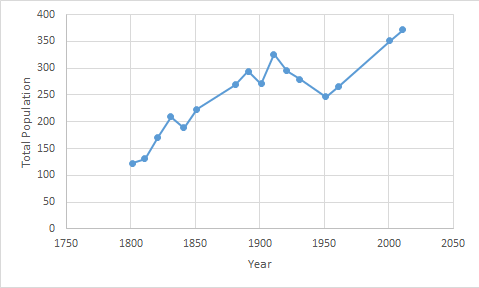 Total Population of Ripple, Kent, as reported by the Census of Population from 1801 to 2011.